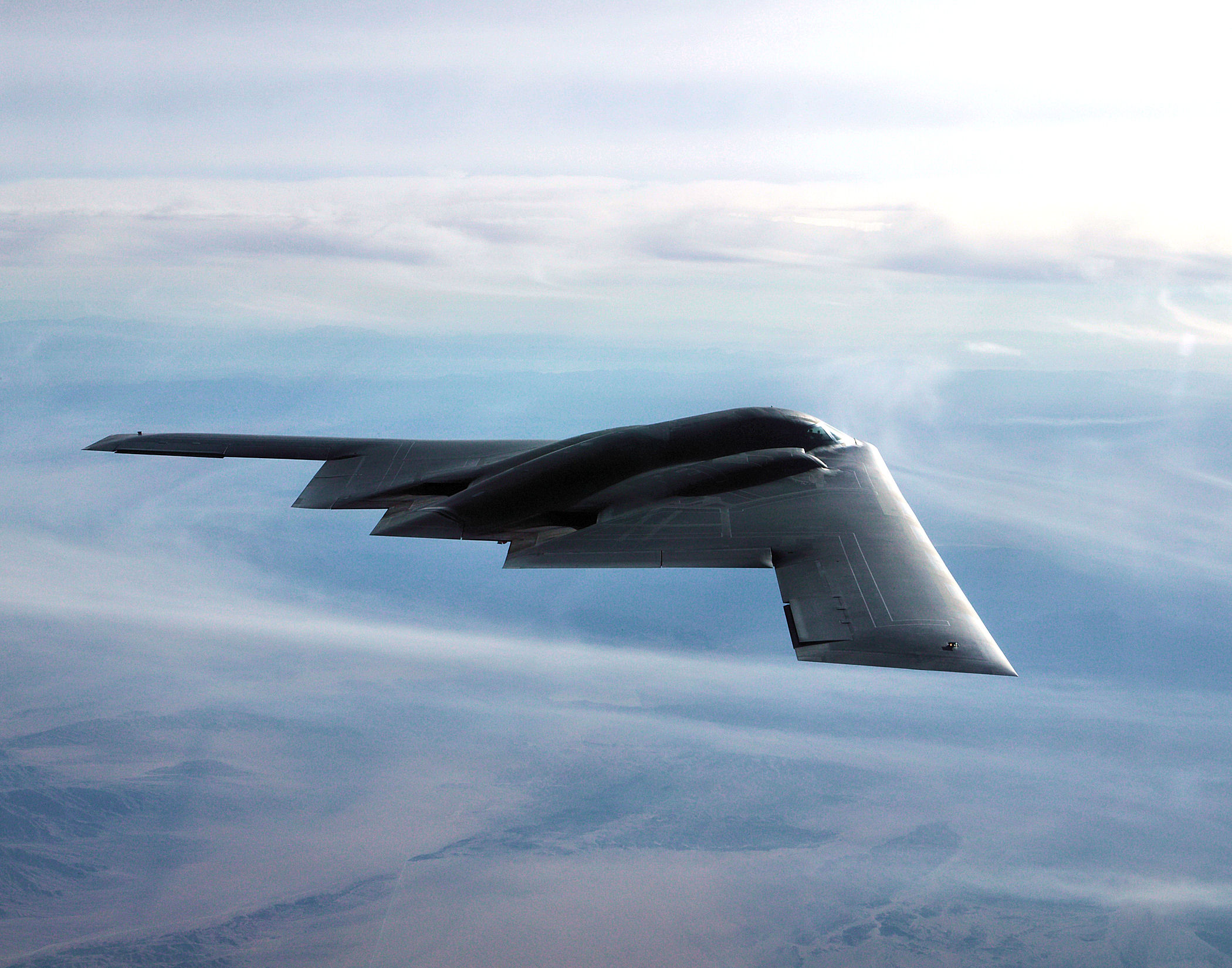 The B-2 Stealth Bomber on a test mission from Edwards Air Force Base, Calif. The polar flight helped ensure that the B-2 maintains its global combat power capability in all environments with new computers for future growth and sustained contributions to the greater Air Force mission. (U.S. Air Force Photo by Bobbi Zapka)